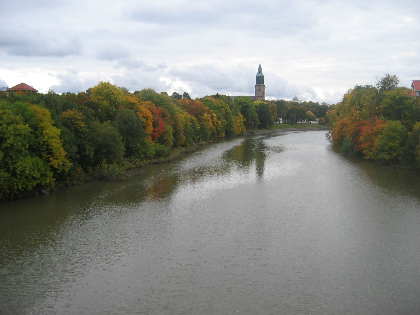 Autumn Ruska in Turku